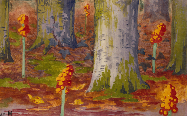 Dansk Ingefær (Danish Ginger), woodcut in the Japanese style by the Danish-German artist Henriette Hahn-Brinckmann, in the collection of Vejen Art Museum